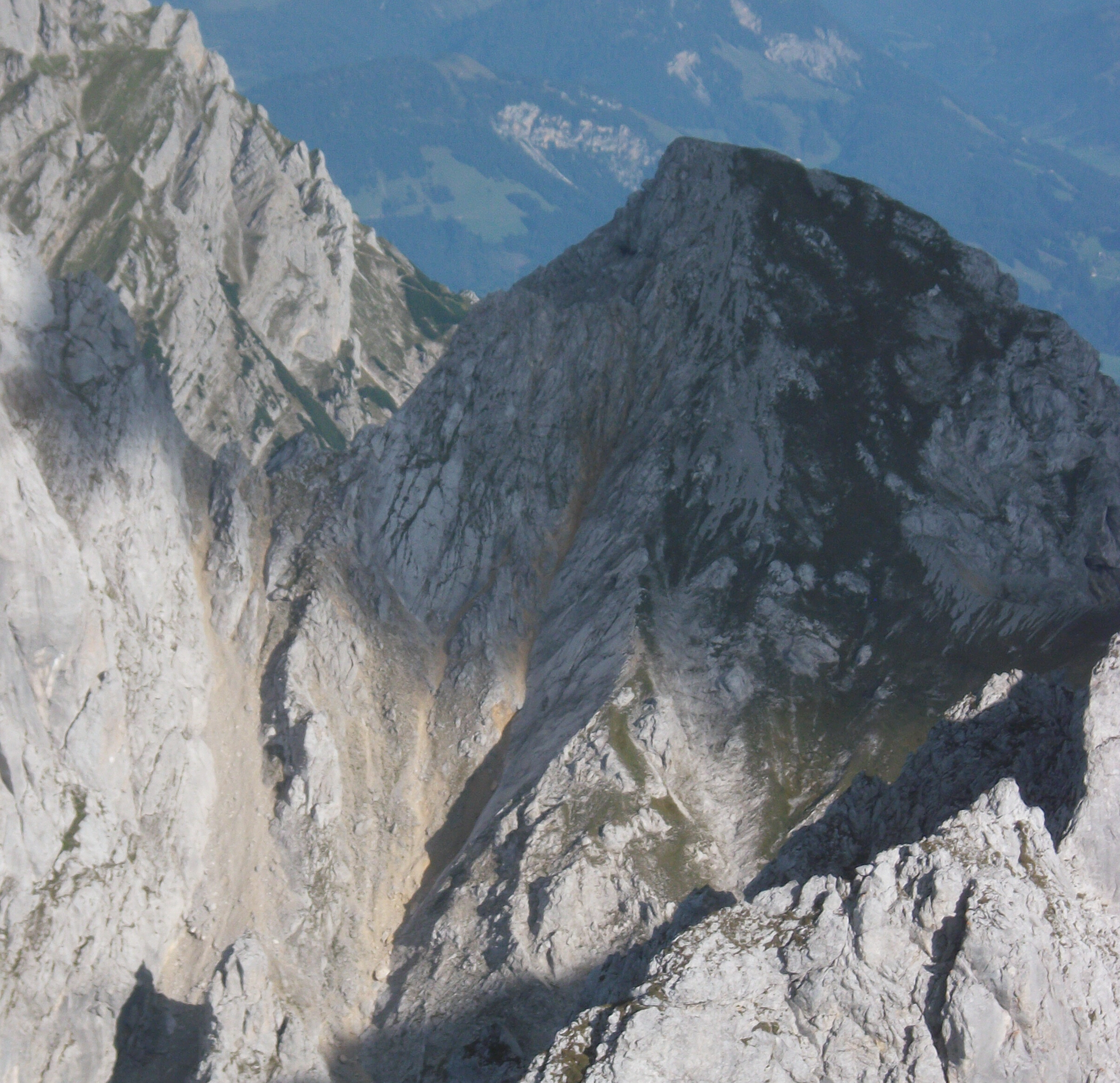 Kaiserkopf from west, Rote-Rinn-Scharte